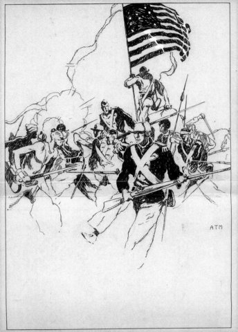 The Battle of Derne, 1805, ink drawing by Arman Manookian, ink drawing by Arman Manookian, Honolulu Academy of Arts